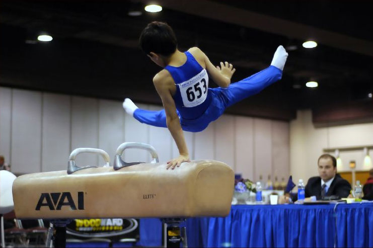 Gymnastics in Oakland, California